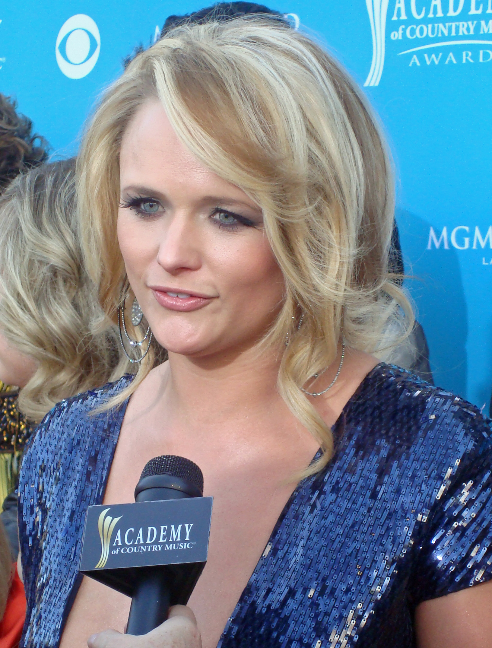 Miranda Lambert at the 45th Annual Academy of Country Music Awards.